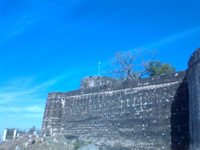 Jhansi Fort with India's flag atop.